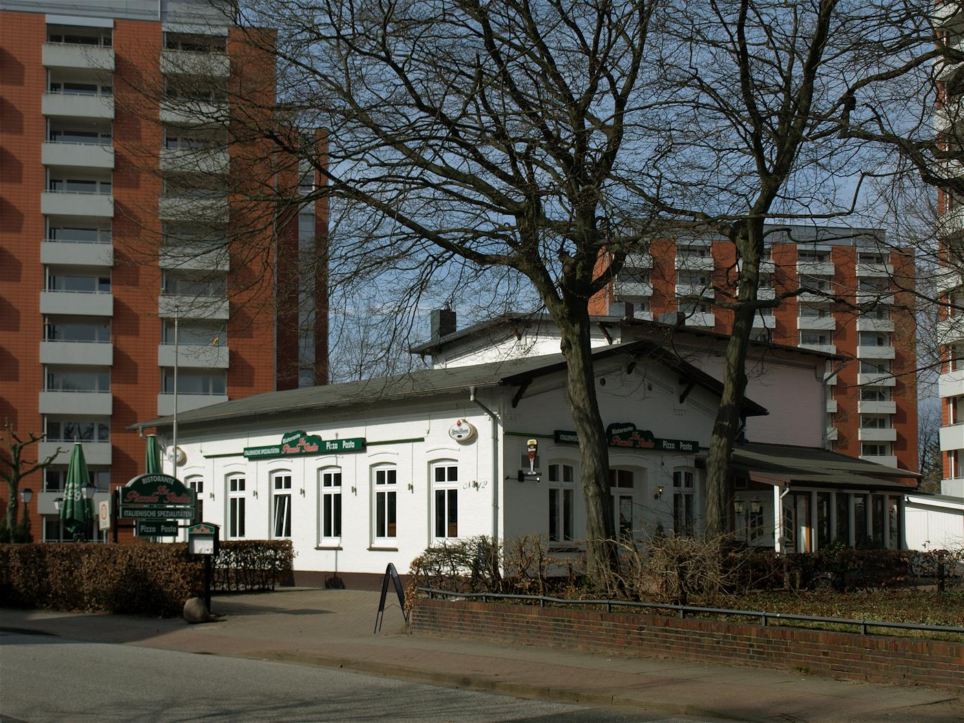 Pinneberg, Schleswig-Holstein (Germany), Former cooking-school of Wupperman, photo 2011